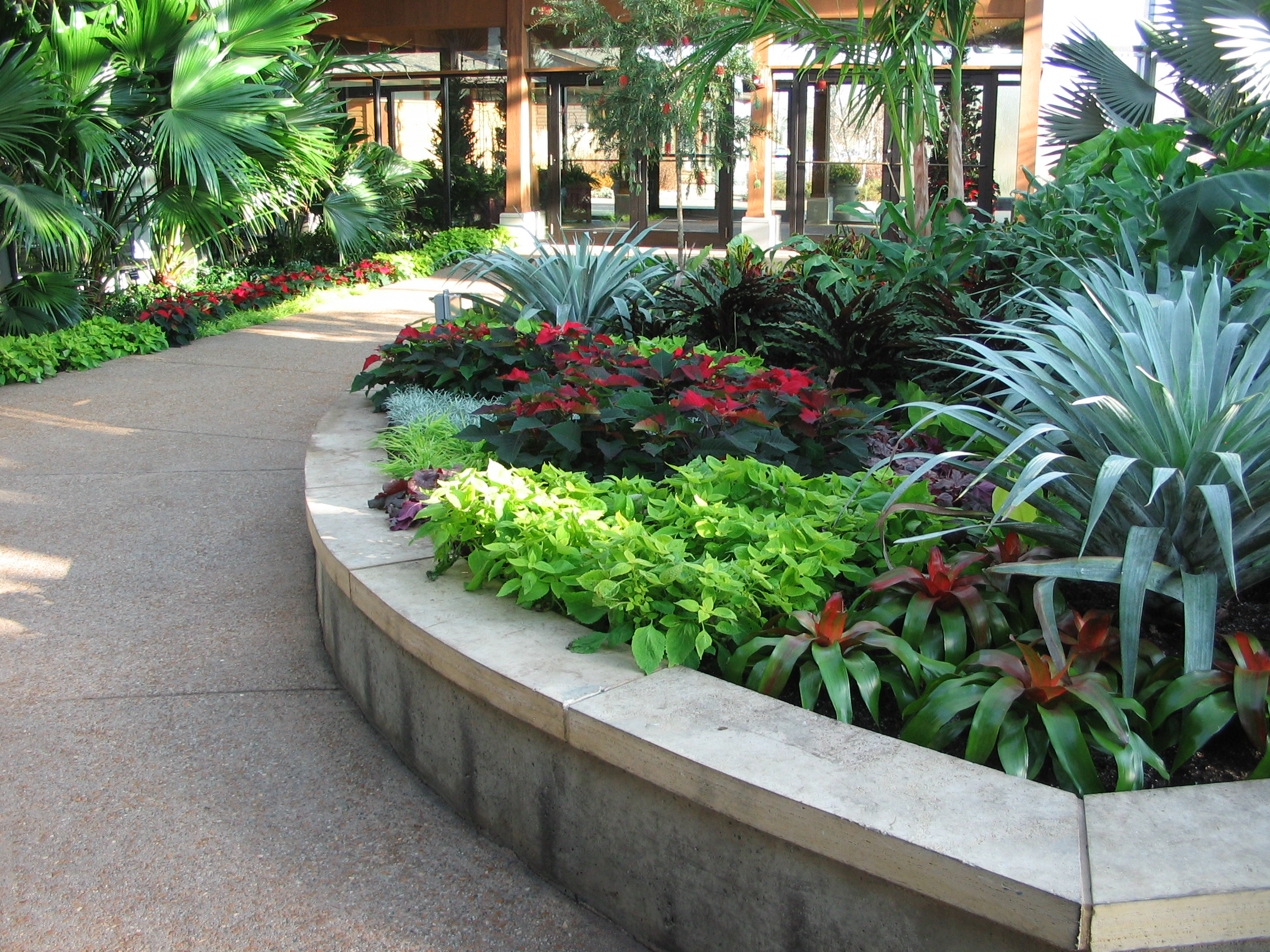 Inside the tropical conservatory. New themed displays are installed seasonally.